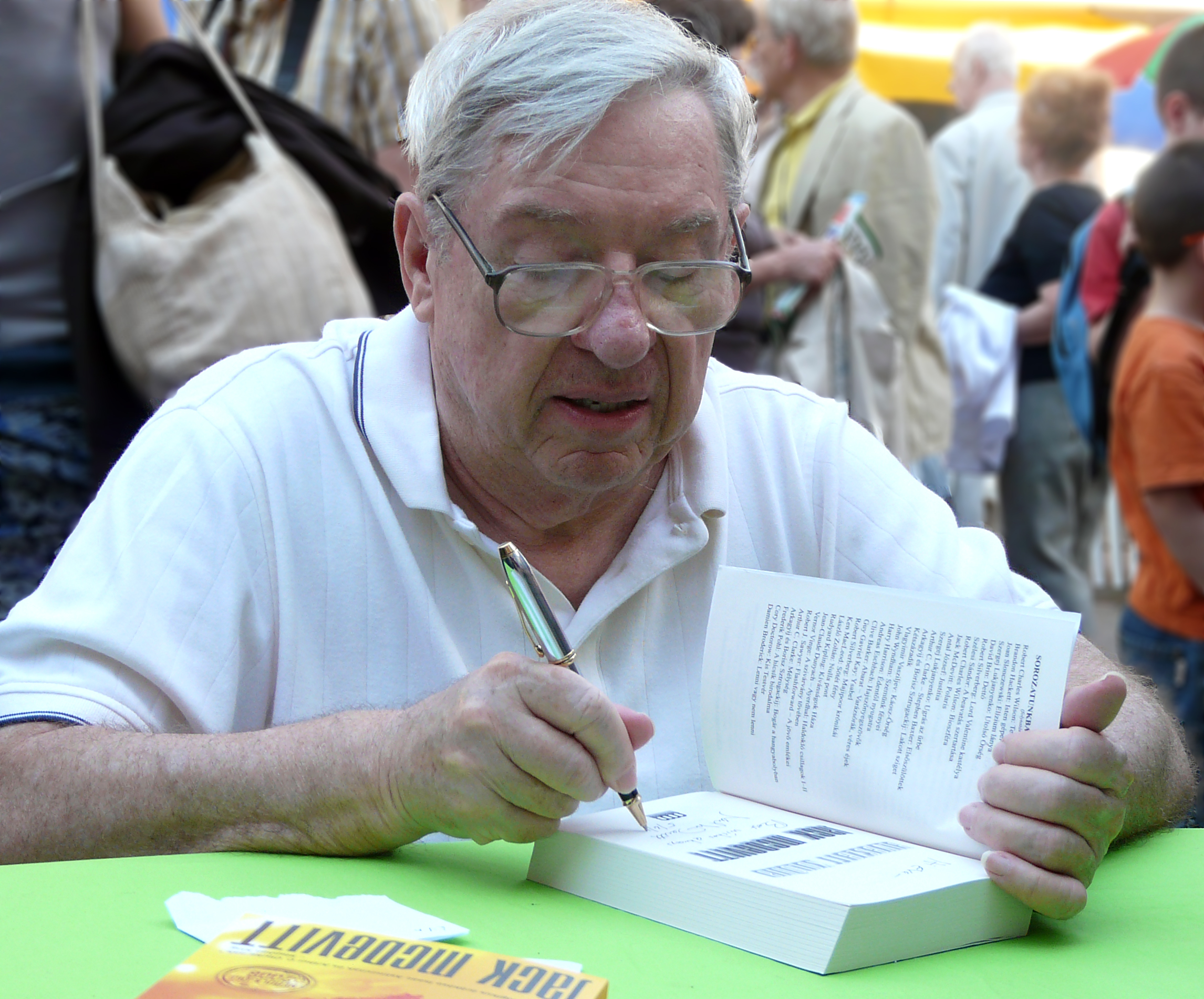 Jack McDevitt American science fiction author. Budapest, 2010.